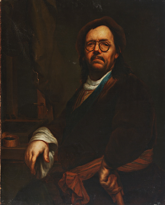 Self-portrait